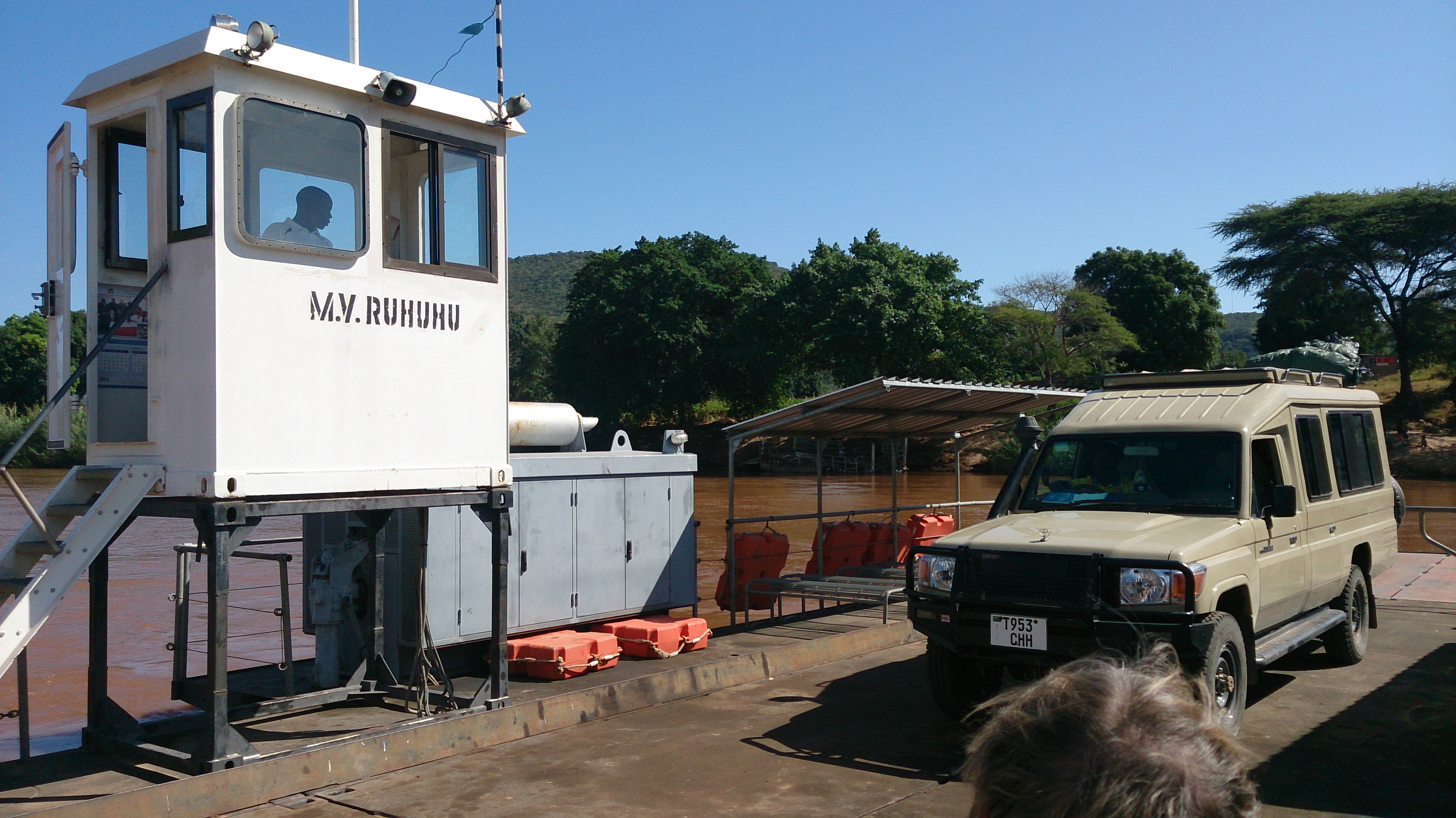 the feryyacross the Ruhuhu river can transport cars up to 10 to